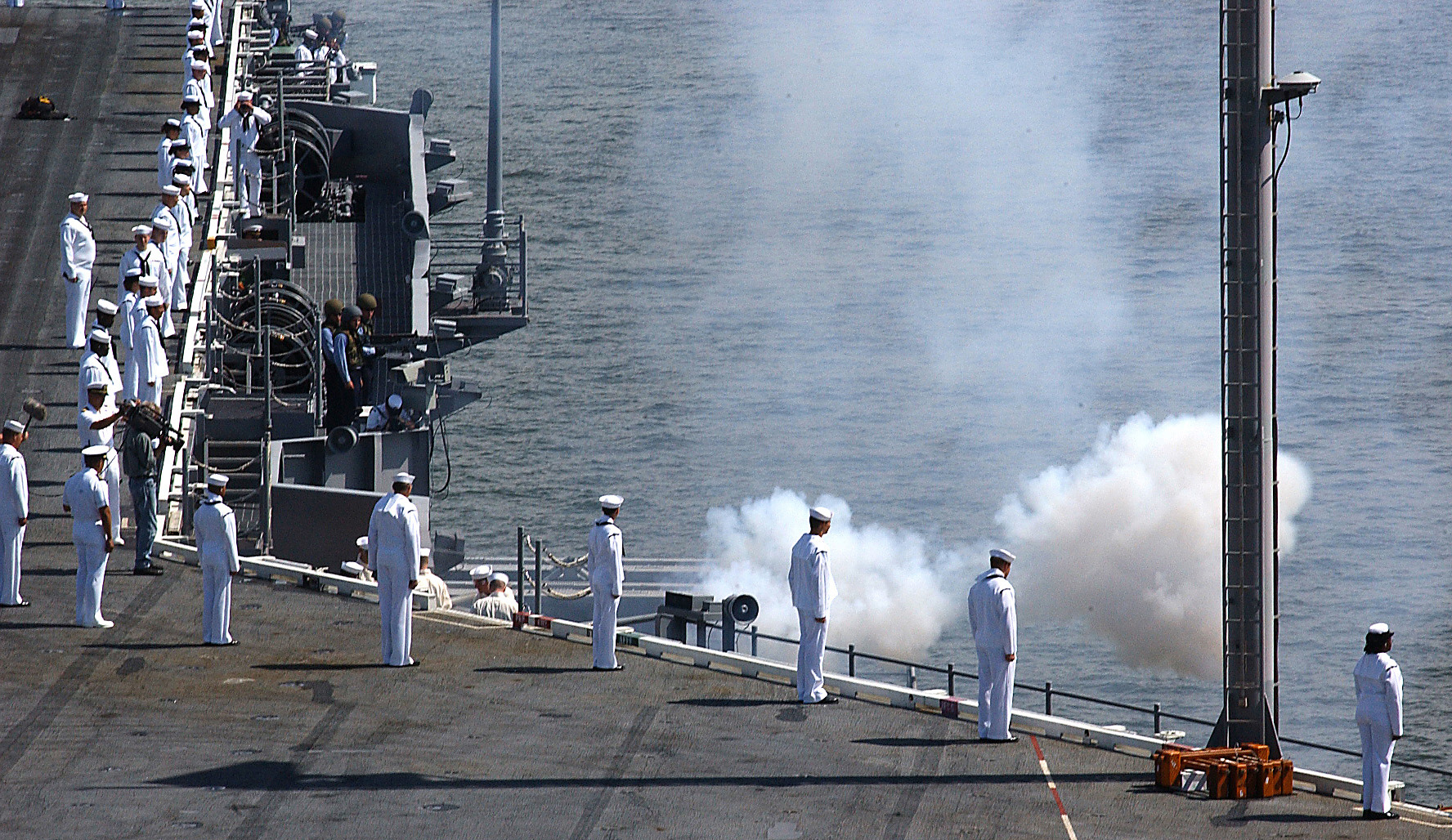 USS Ronald Reagan (CVN 76), May 27, 2004 - USS Ronald Reagan (CVN 76) gives a 21-gun salute as the ship pulls out of Naval Station Norfolk, Norfolk, Va. The ship is circumnavigating South America during transit to its new homeport of San Diego. U.S. Navy photo by Photographerís Mate Airman Konstandinos Goumenidis (RELEASED)